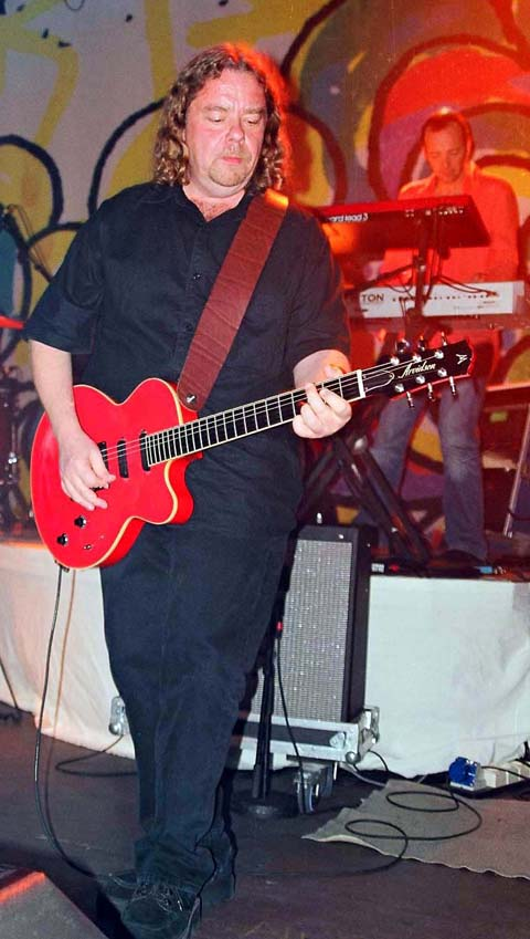 Jonas Isacsson